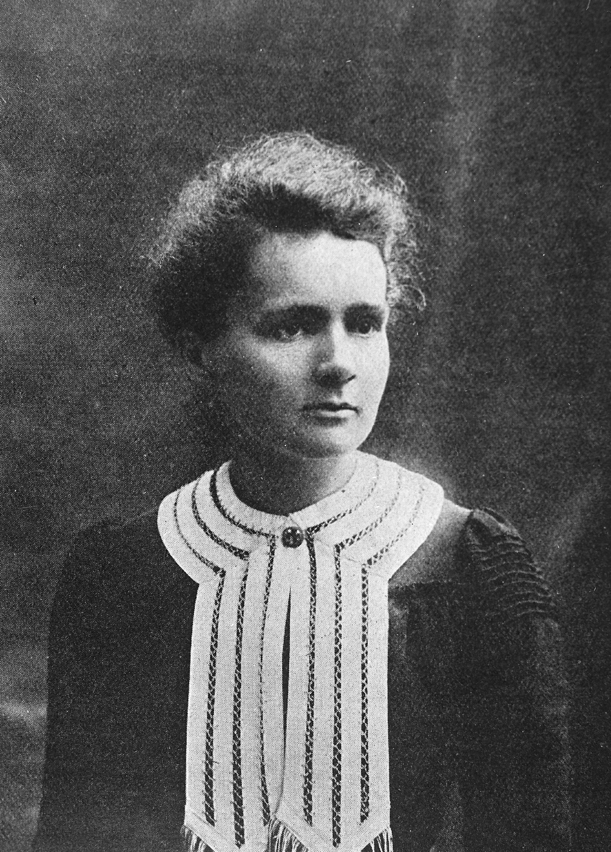 Portrait of Marie Curie [1867 - 1934], Polish chemist, wife of Pierre Curie Iconographic Collections Keywords: Marie Curie